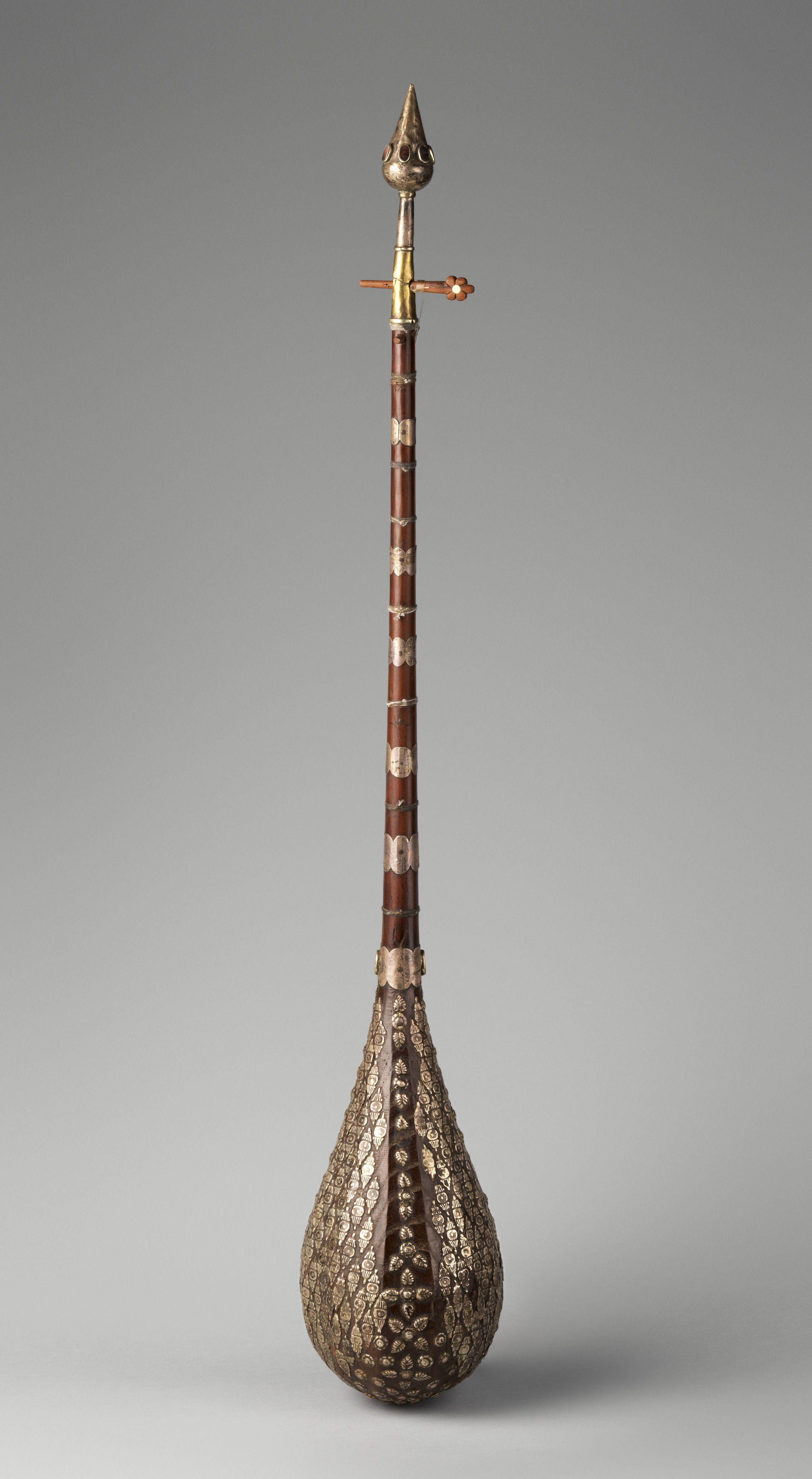 Afghan (Turkmen); Dutār; Chordophone-Lute-plucked-fretted